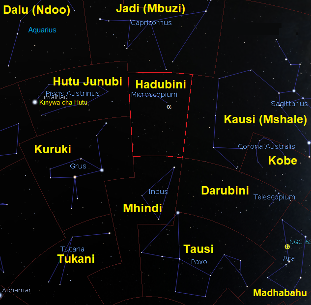 Constellation Microscopium as seen from Tanzania, Swahili labelled Kiswahili: Kundinyota Hadubini (Microscopium) jinsi inavyoonekana kutoka Tanzania, majina kwa Kiswahili